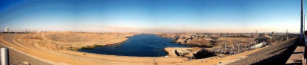 Benjamin Franck, picture taken by myself on nov 2005